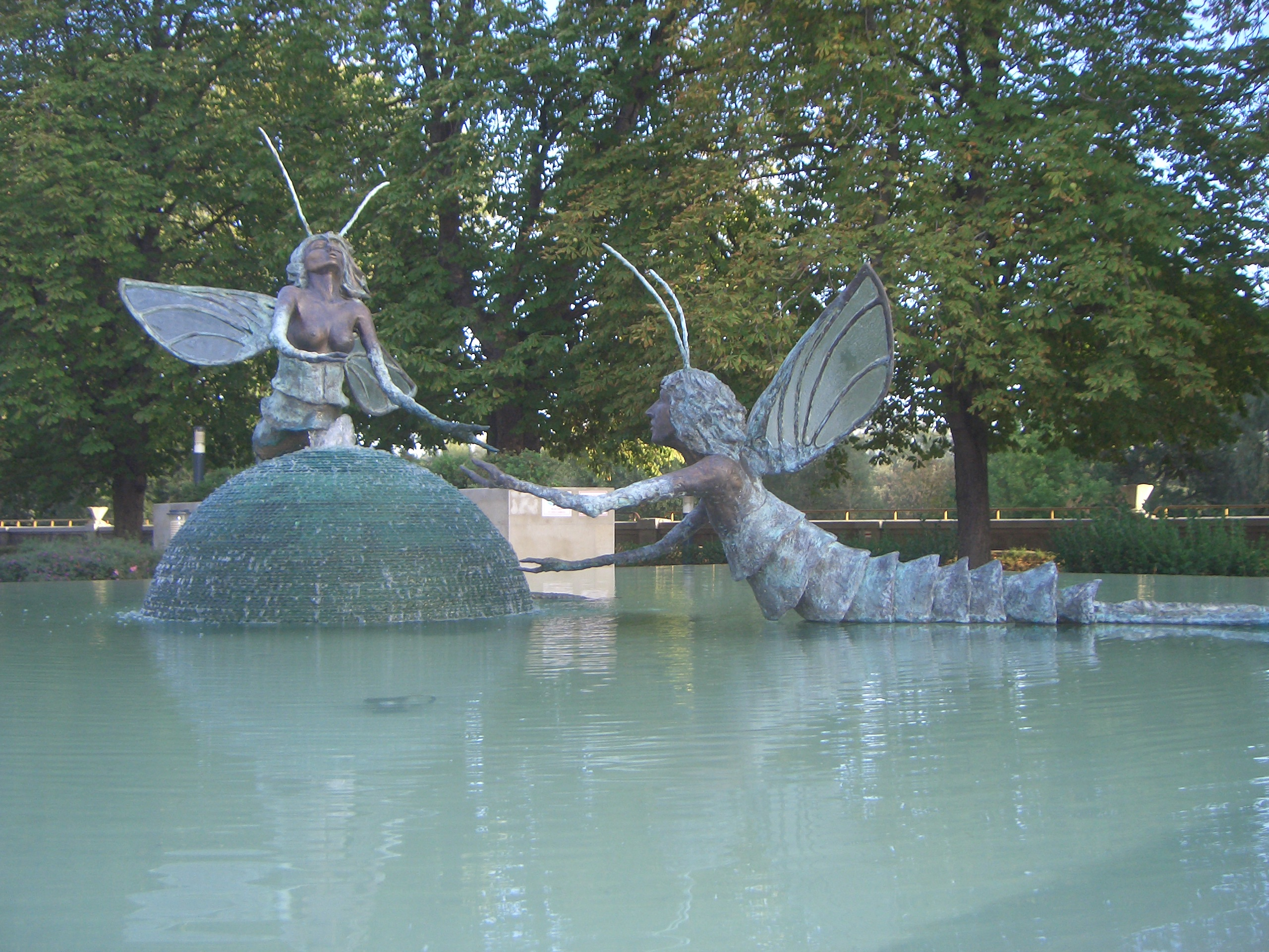 Szolnok, Hungary, Tiszavirág-statue ("Mayfly Memorial") near the Tiszavirág-bridge